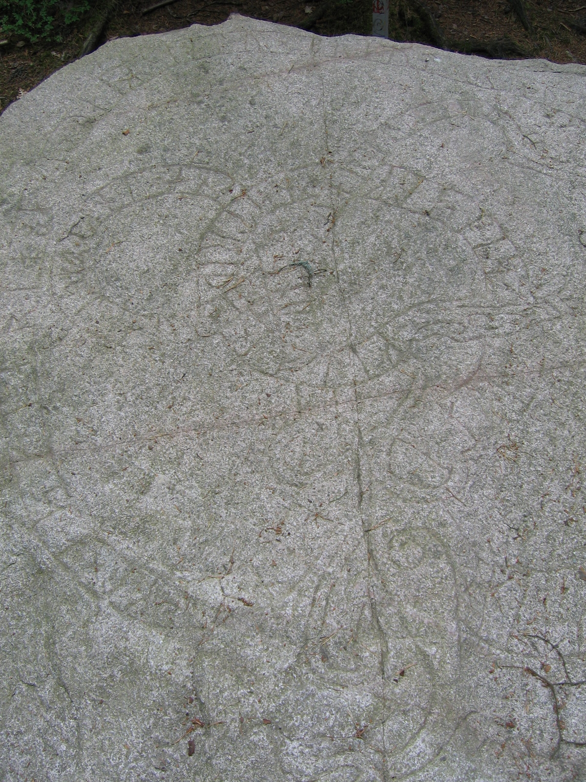 closeup of unpainted stone U 101 in Södersätra, Sollentuna.